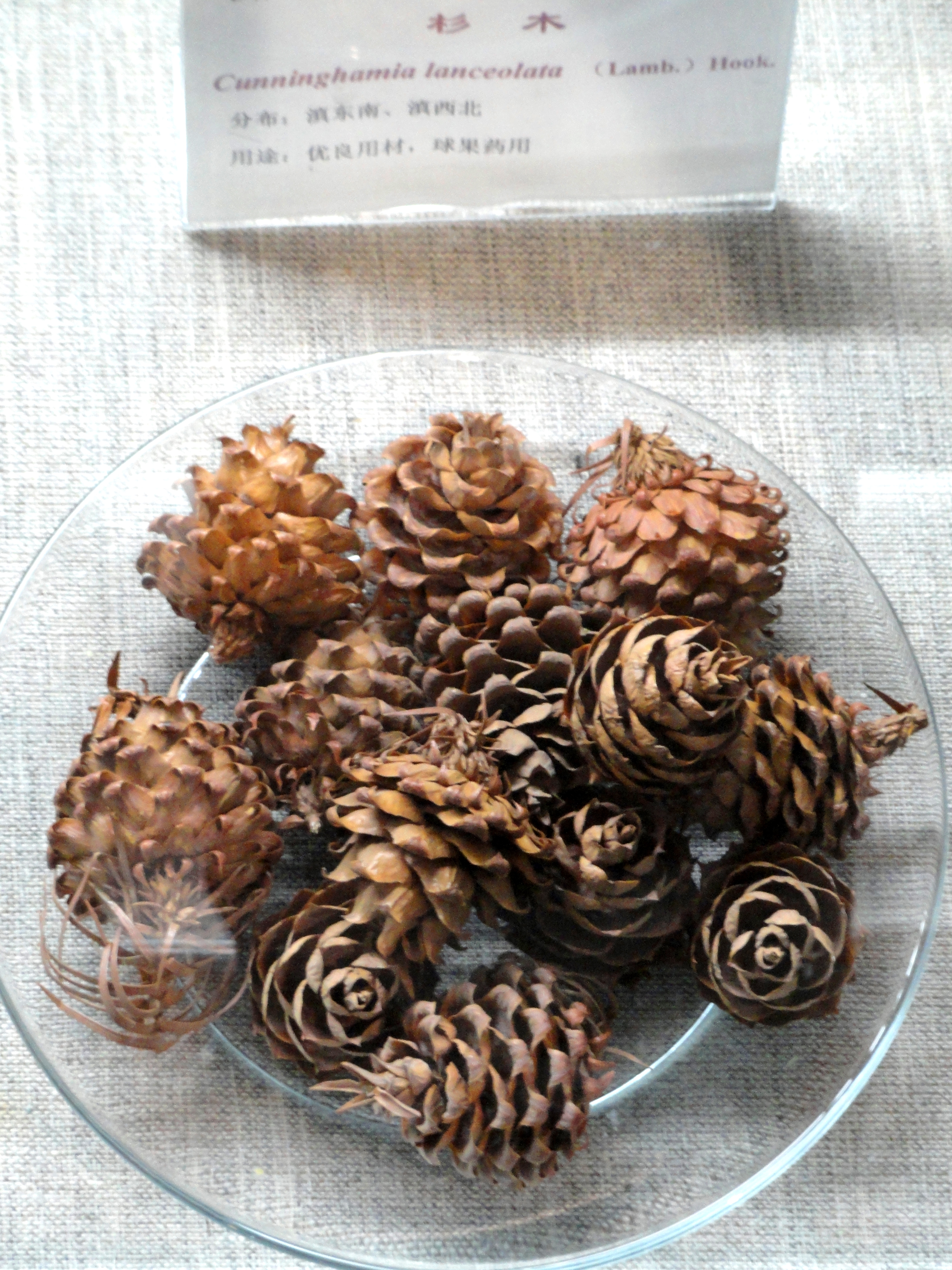 Seeds exhibited in the Kunming Botanical Garden, Kunming, Yunnan, China.